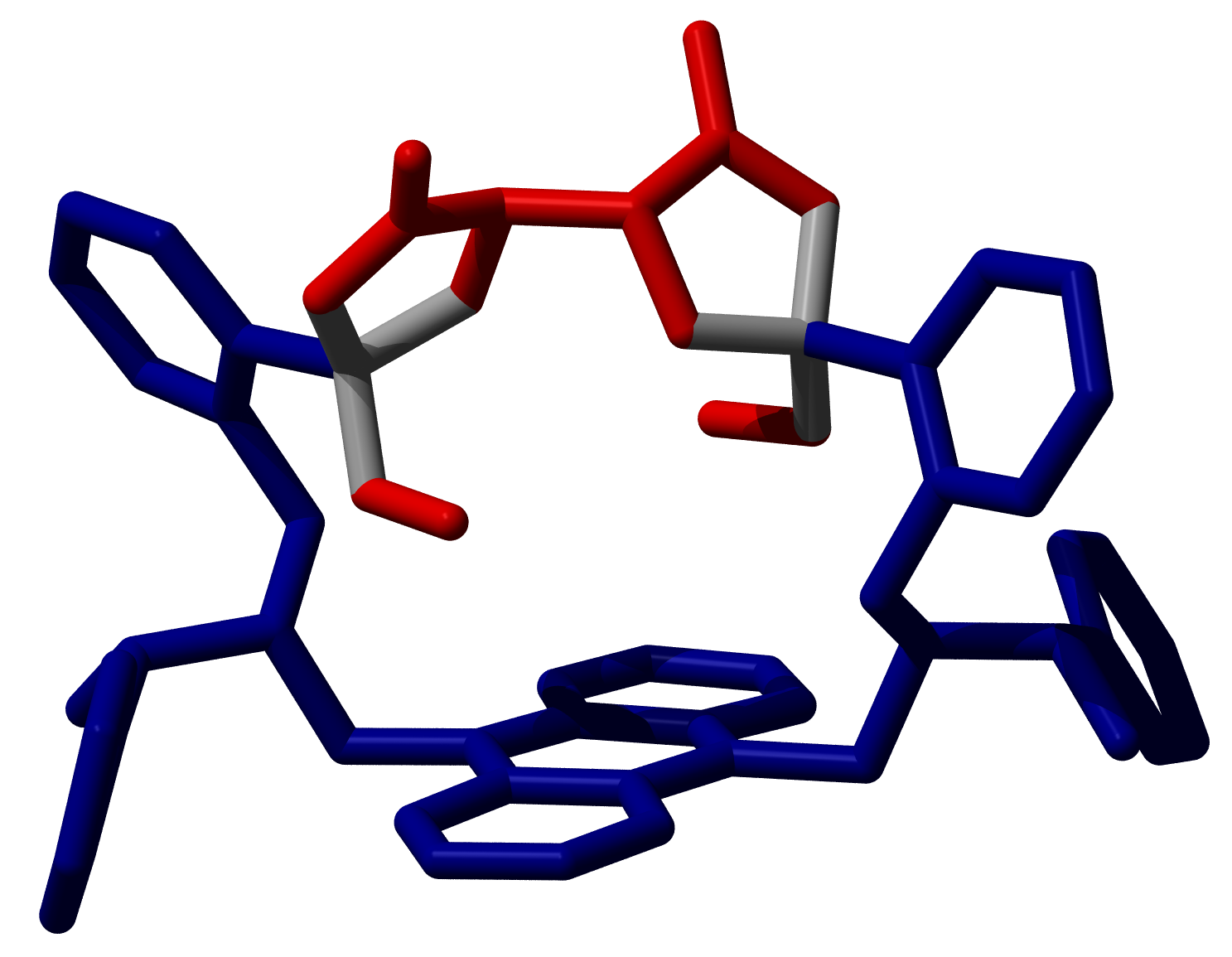 This image was generated from a crystal structure reported by Jianzhang Zhao, Matthew G. Davidson, Mary F. Mahon, Gabriele Kociok-Köhn, and Tony D. James in J. Am. Chem. Soc., 2004, 126(49), 16179– 6186. It illustrates L–tartaric acid bound by the diboronic acid based sensor. B-O bonds are highlighted in grey.